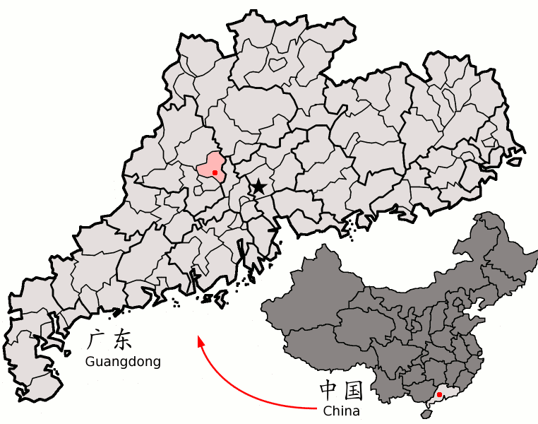 Location of Sihui within Guangdong province of China